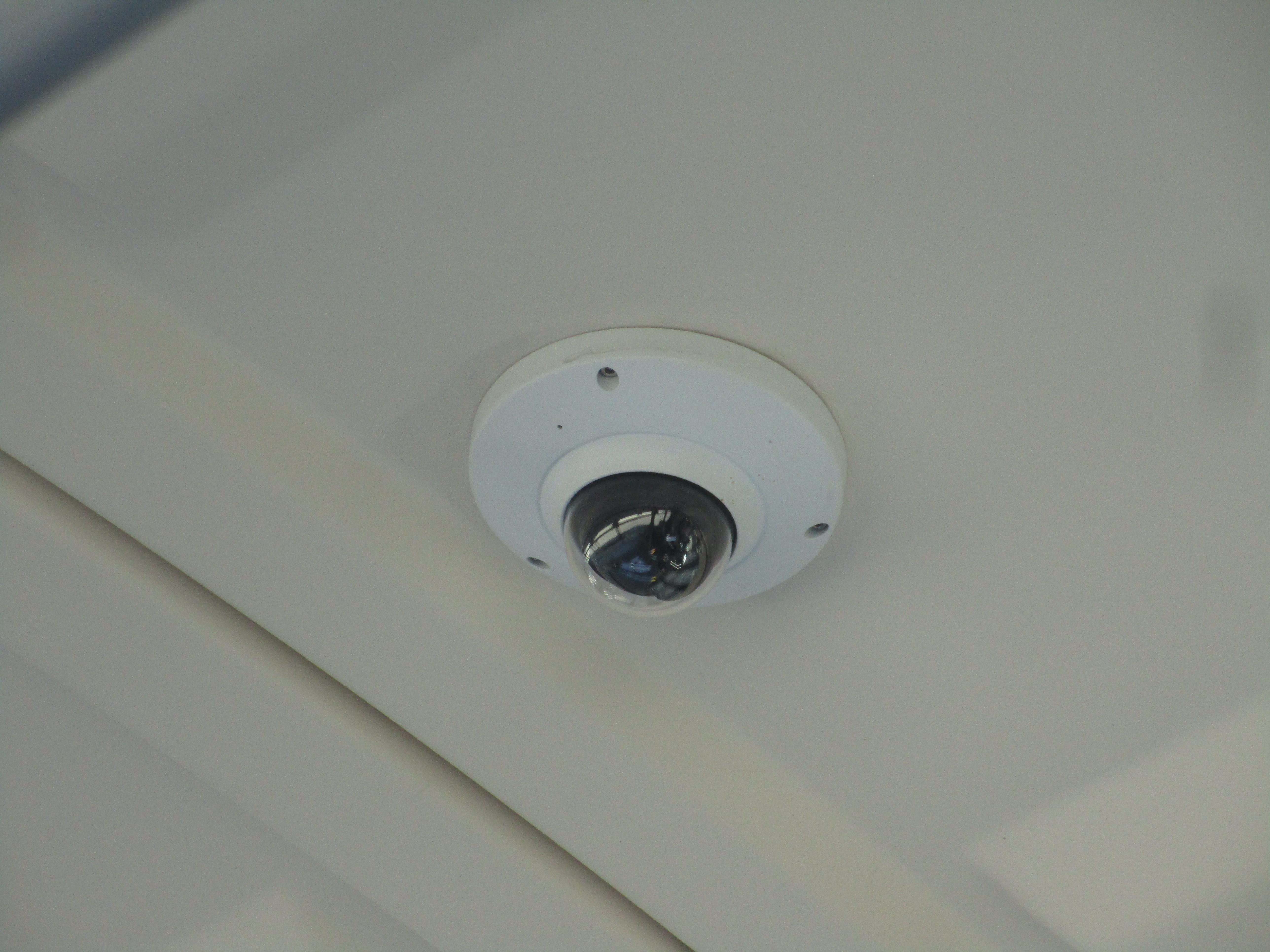 A surveillance camera in the bus Iveco Urbanway 12 n°2051 of the Stac.